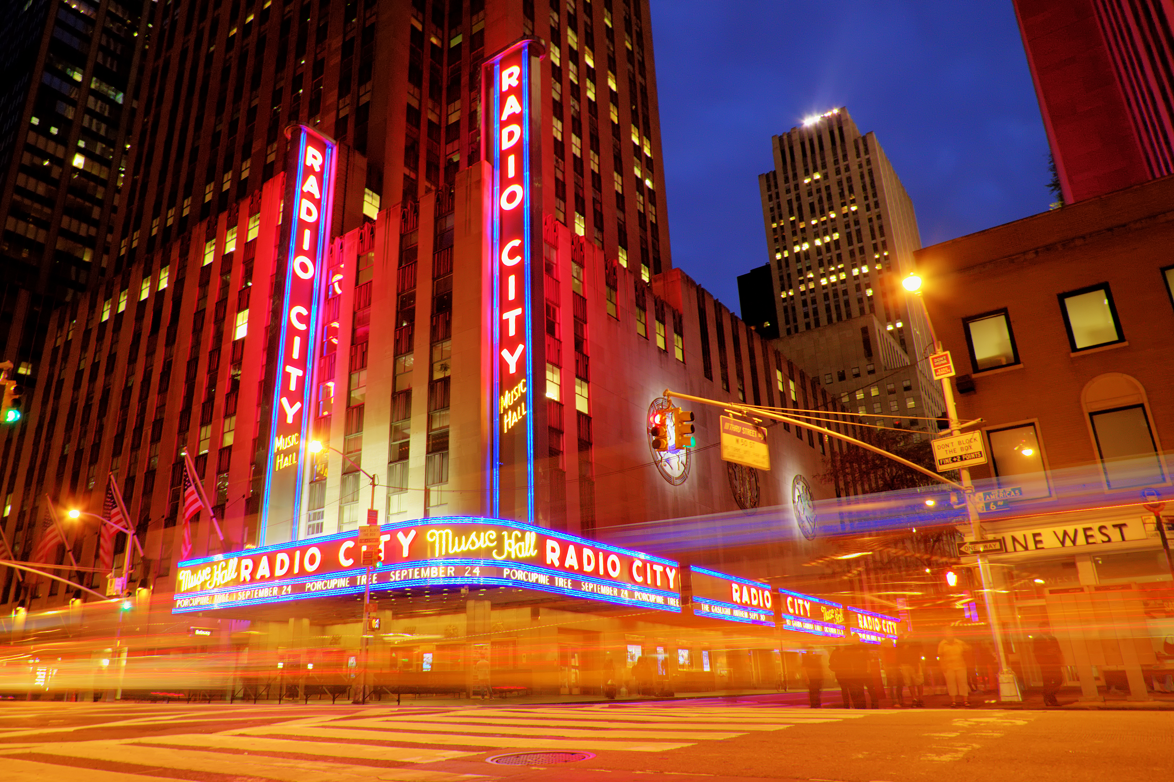 Radio City Music Hall